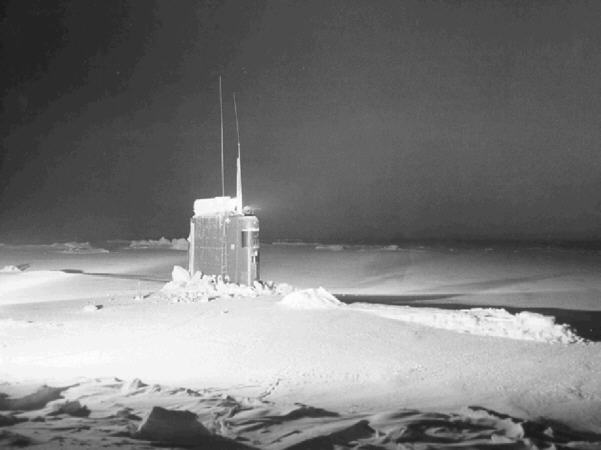 USS Sargo (SSN-583) surfacing at the North Pole in 1960 February 9, U.S. Navy photo Credit: United States Navy